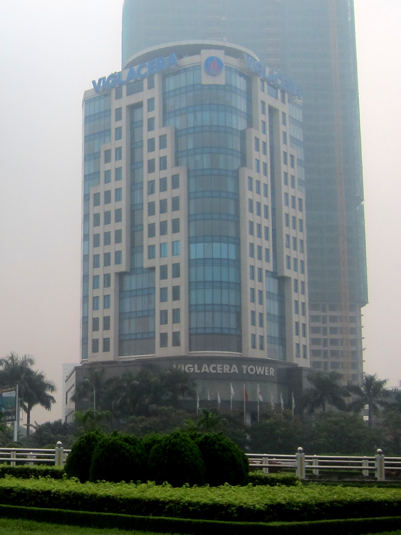 Head office of Viglacera Corporation, Hanoi, from a taxi window